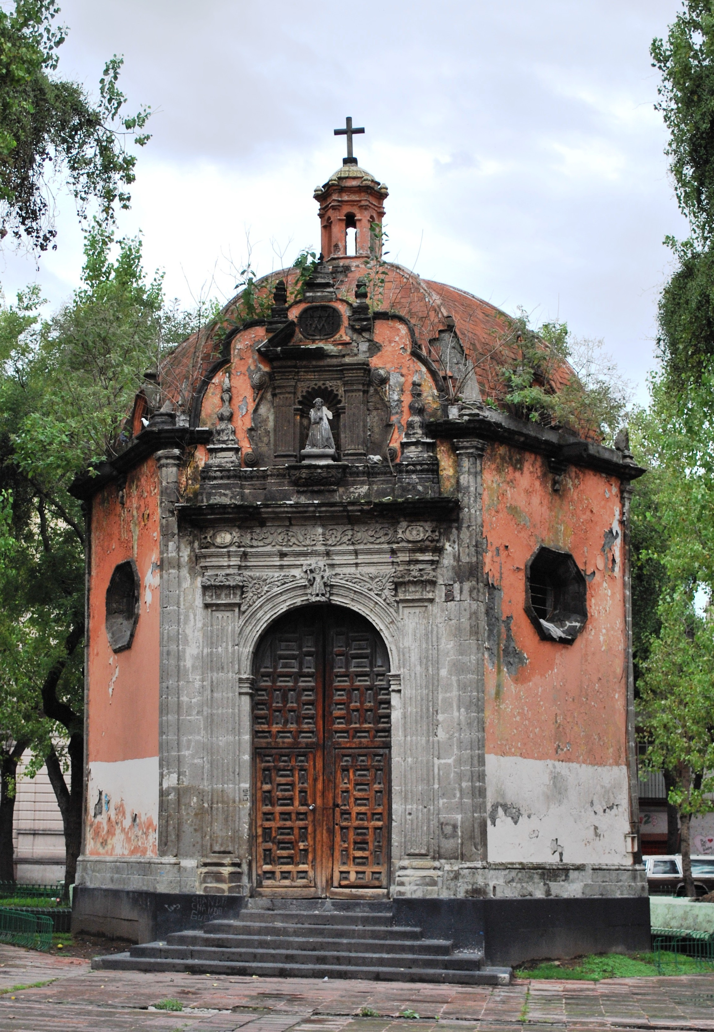 Chapel in the center of the Plaza de la Concepción in the historic center of Mexico City